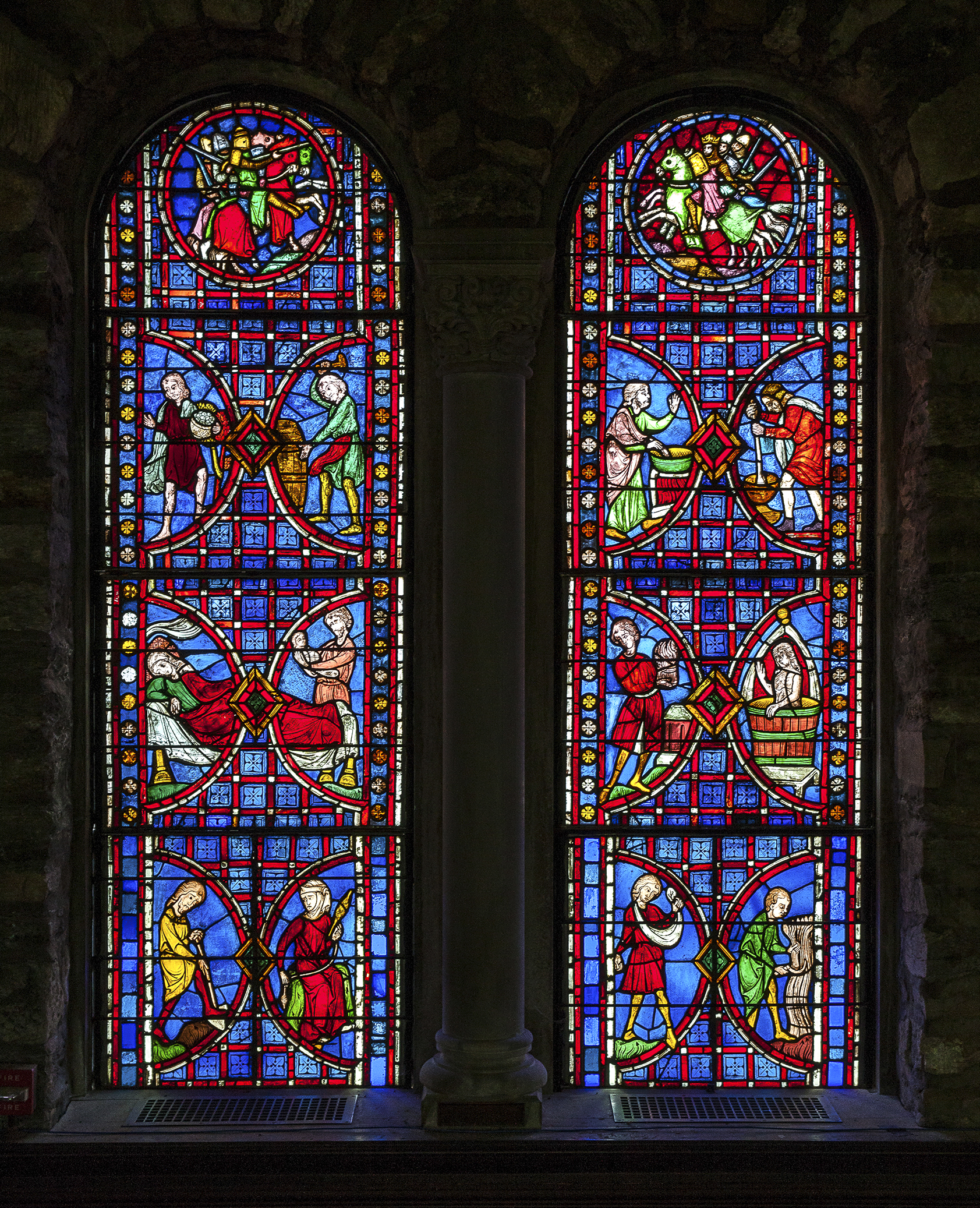 13th century vertical windows from St. Julien Cathedral, France, installed in Clark Memorial Chapel, Pomfret school, Pomfret Connecticut, USA